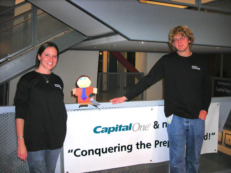 A Flat Stanley mailed to Richmond, VA, sent as a visitor as part of the Flat Stanley project from a student in Atlanta, GA.